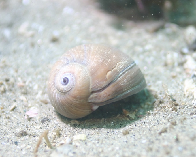 Neverita lewisii (Gould, 1847) (synonyms: Lunatia lewisii (Gould, 1847) Lewis' moon snail, formerly known as Polinices lewisii and Euspira lewisii